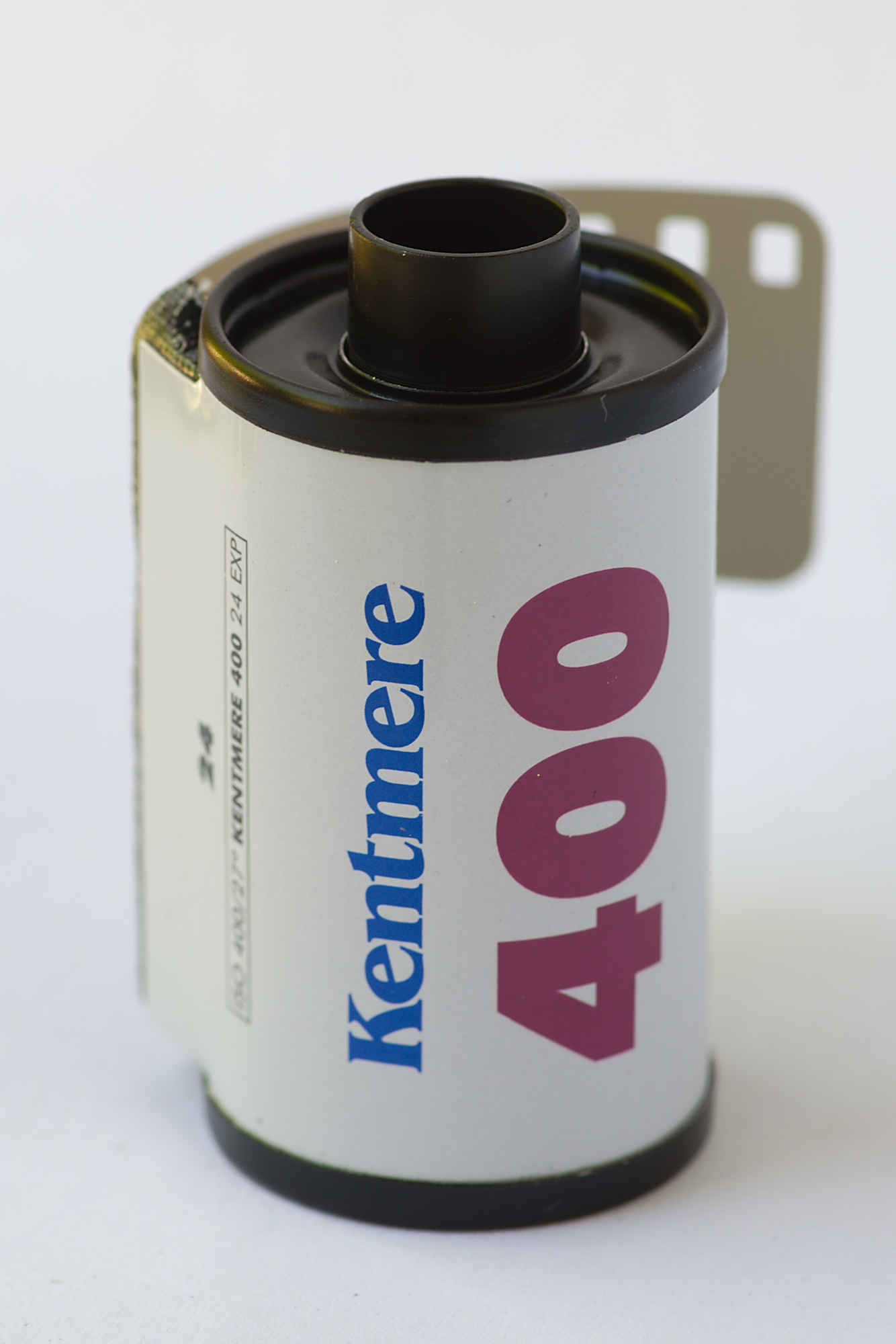 A roll of Kentmere 400 Black and White film, expiring in July 2021, DX cartridge barcode: 017703.